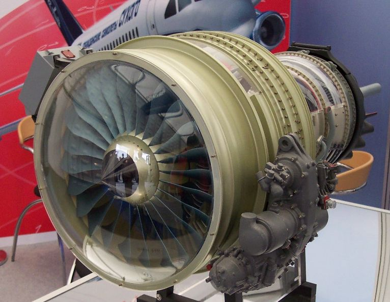 Description: SaM 146 Source: Stahlkocher This picture may have usage restrictions